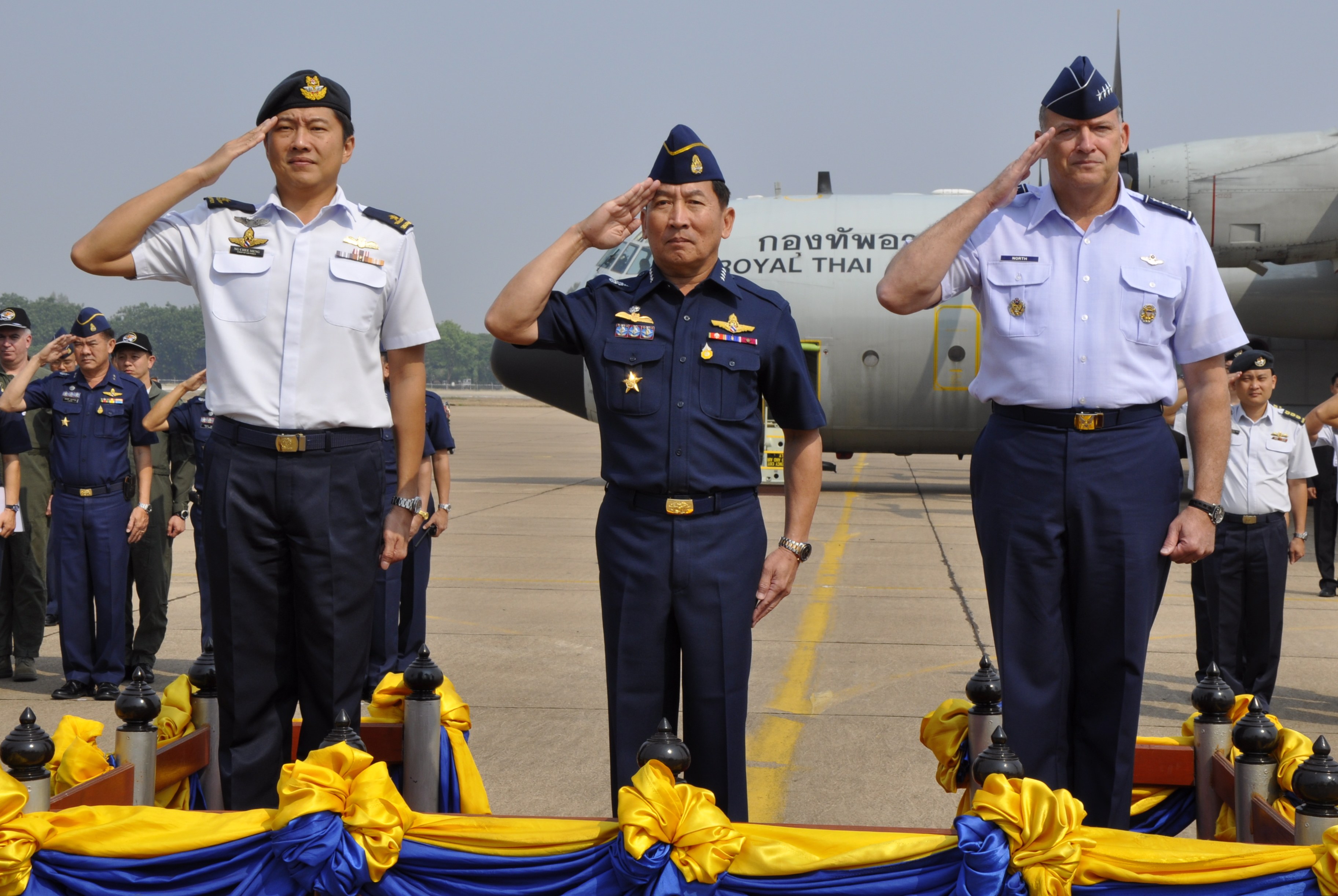 Brig. Gen. Ng Chee Meng, Republic of Singapore Air Force Chief of Air Force; Air Chief Marshal Itthaporn Subhawong, Royal Thai Air Force commander in chief; and Gen. Gary North, Pacific Air Forces commander, salute as the Thailand national anthem is played during the Cope Tiger closing ceremony at Korat Royal Thai Air Force Base, Thailand, March 12, 2010.